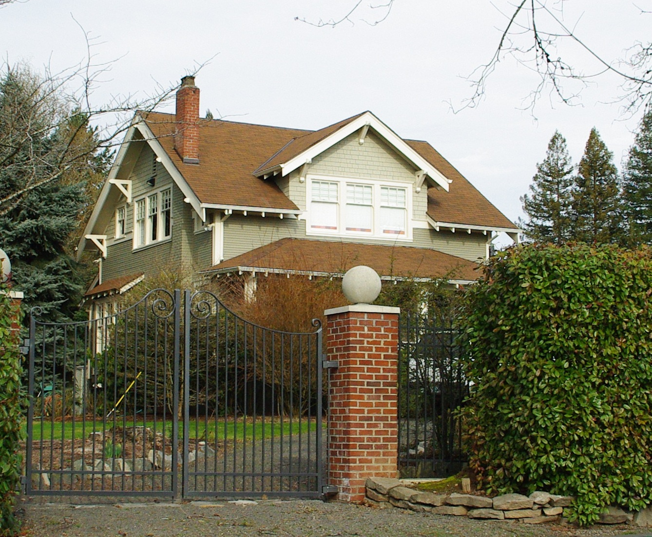 J.F. Watkins House at 5419 SW Scholls Ferry Road, Portland, Oregon. In the Raleigh Hills, Oregon area.